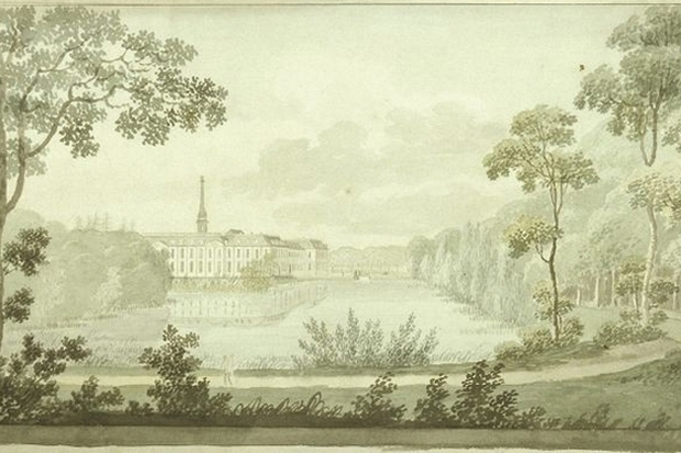 Watercolour painting of Hirschholm in decay in Hørsholm, Denmark